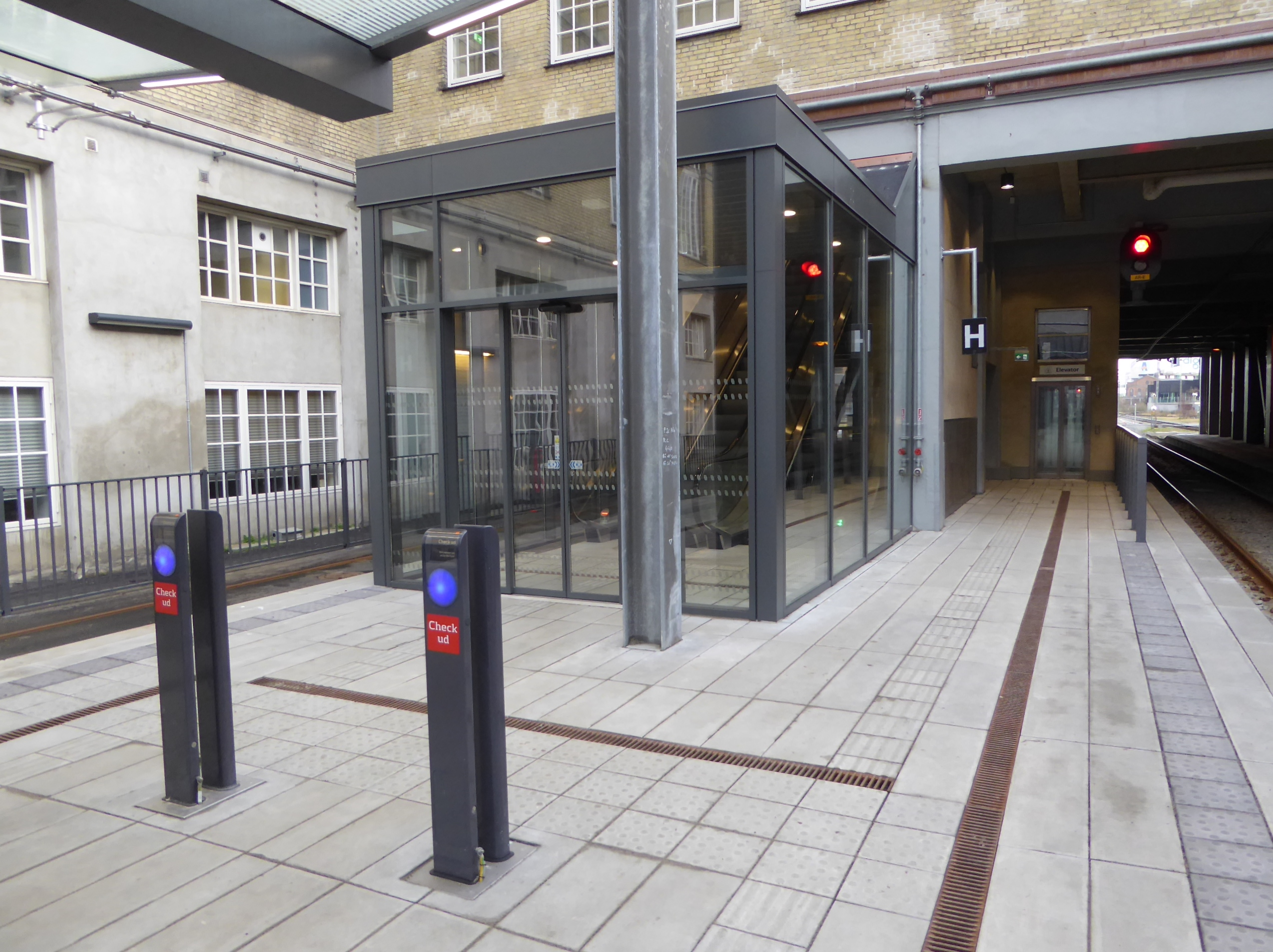 The platform of Aarhus Letbane at Aarhus Hovedbanegård in Denmark.